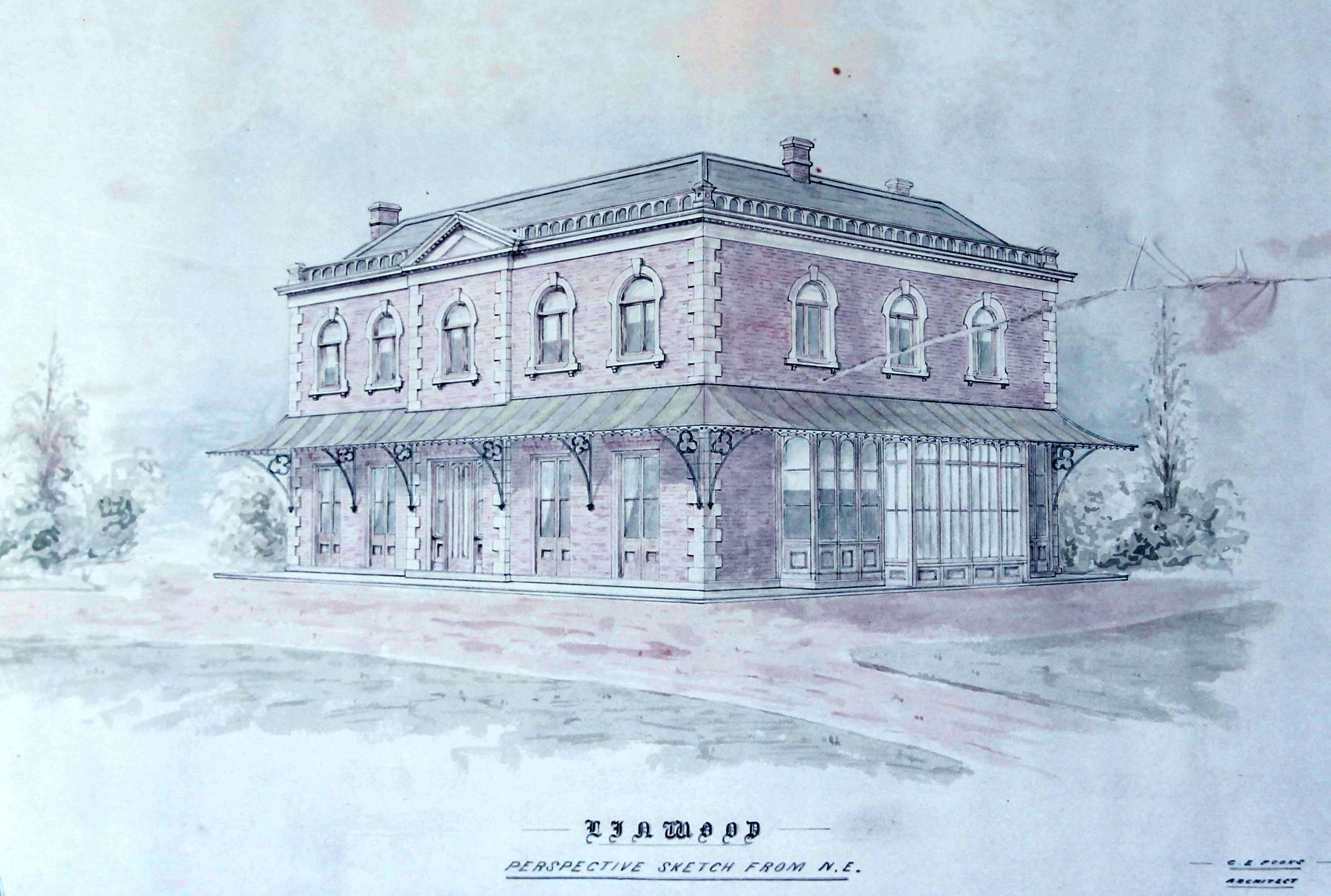 Sketch by "C. E. Fooks architect" of Linwood House. The elevation on the right was not built with the bay windows as shown. Photo taken of a framed copy of the sketch by the uploader. The framed copy is owned by the last owners of Linwood House. The original of the sketch is held at the Anglican Church Archives, Christchurch.